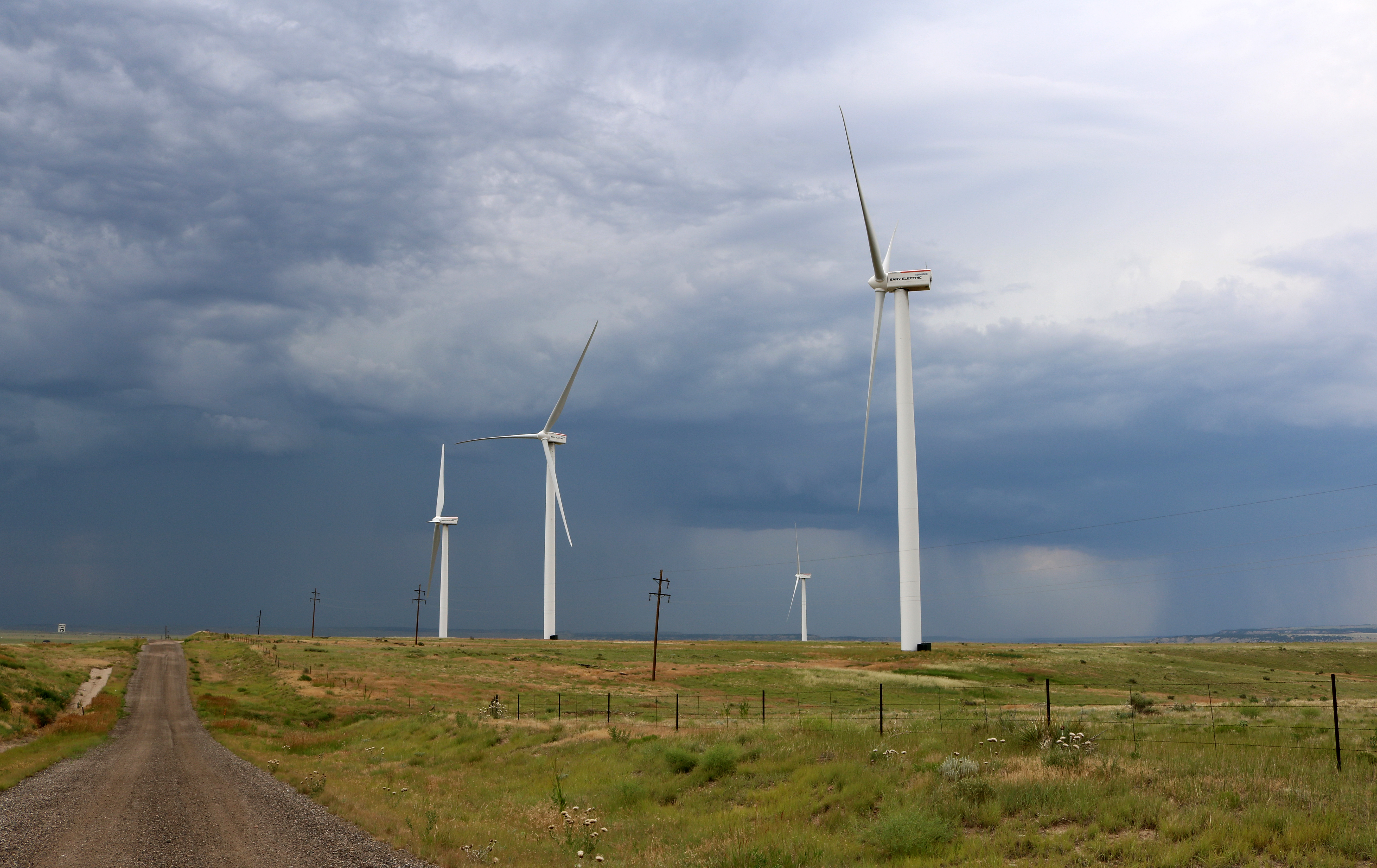 The Huerfano River Wind Farm, located north of the Huerfano River, north of Walsenburg, Colorado, and just east of Interstate 25.